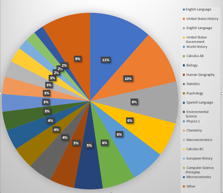 Chart representing the proportion of individuals who have taken the AP exam